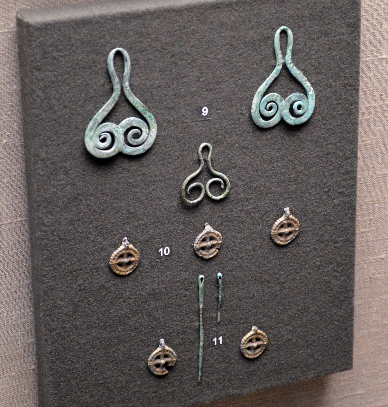 Forest zone of european part of Russia. Berezovy Rog burial ground, second half of 2 mill. BC. Glass-shaped pendants, round pendants, needles. Bronze, Ryazan region.